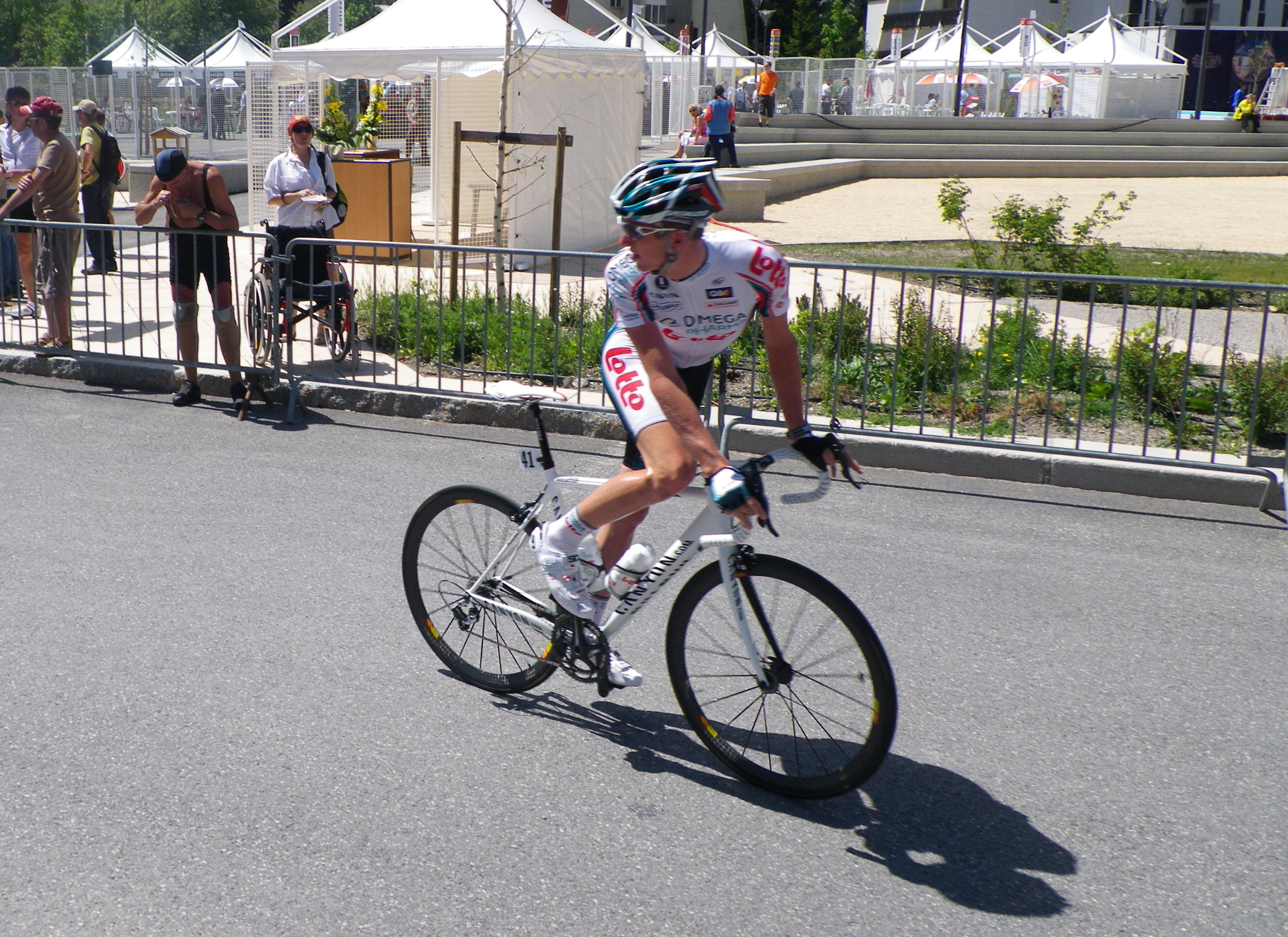 Jurgen Van den Broeck, road bicycle racer. Serre Chevalier. Critérium du Dauphiné Libéré 2010.